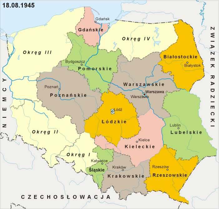 Administrative division of Poland as of August 18, 1945